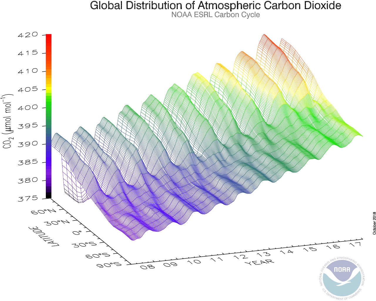 Carbon Dioxide observations from 2005 to 2014 showing the seasonal variations and the difference between northern and southern hemispheres